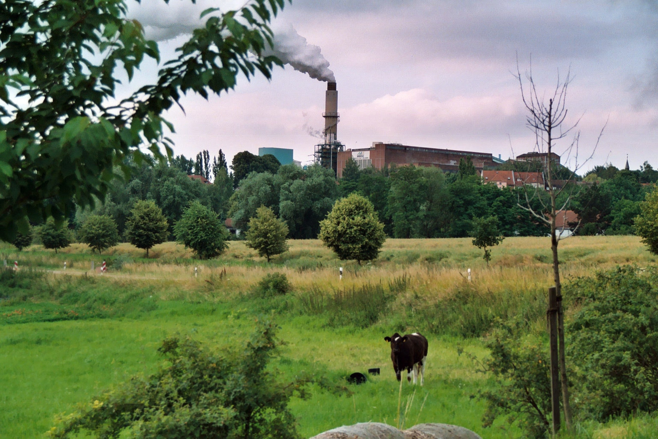 Deuben (Teuchern), brown coal industry, lignite-fired industrial power station